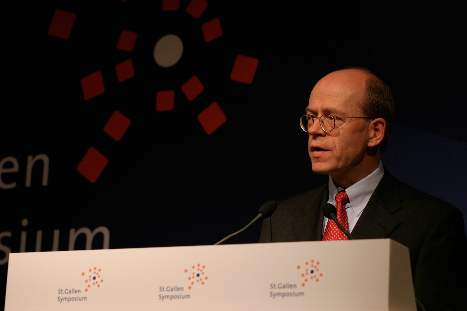 Nikolaus von Bomhard in May 2007 at the 37. St. Gallen Symposium at the University of St. Gallen